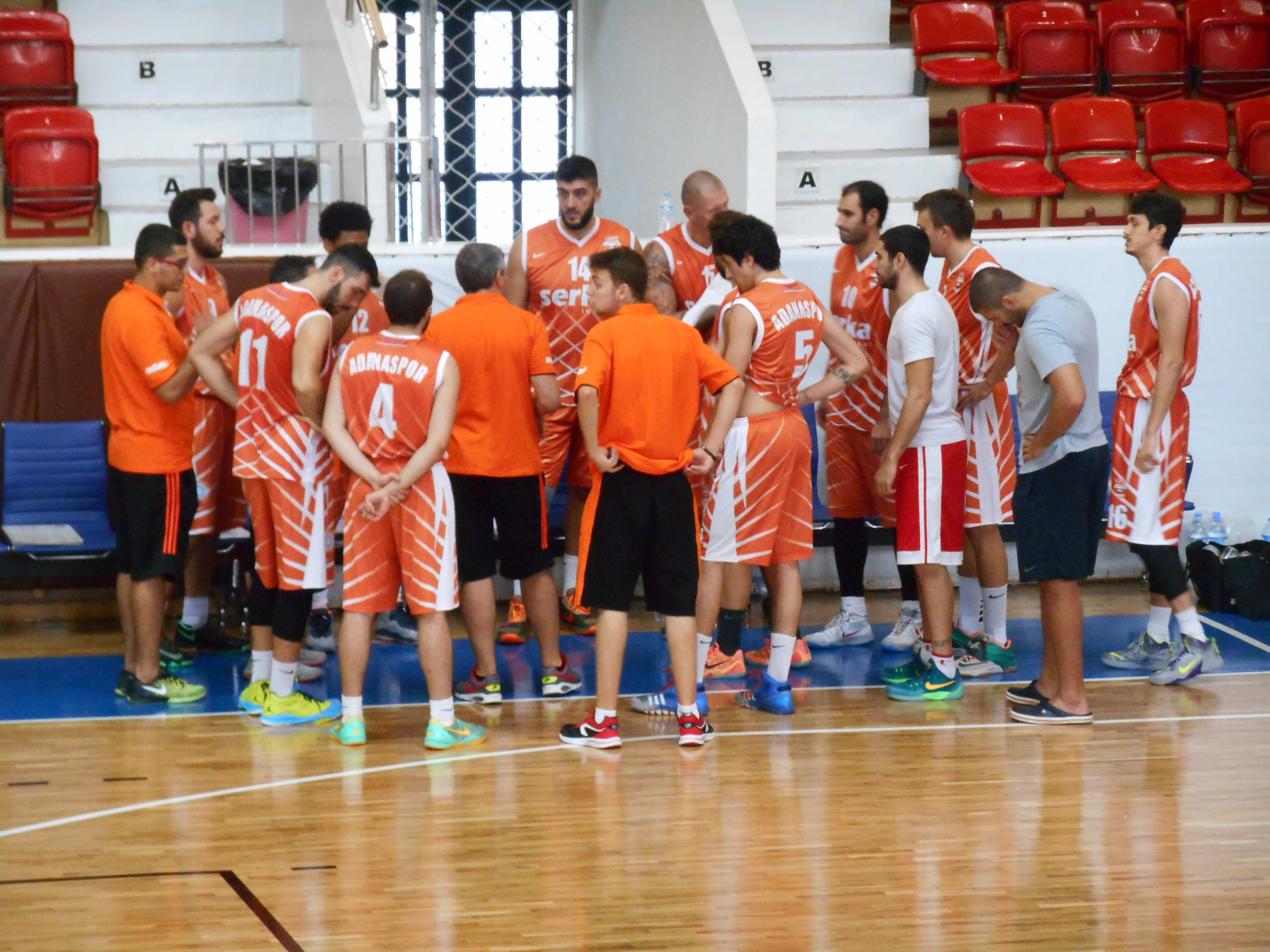 Adanaspor basketball team tactical meeting before a game